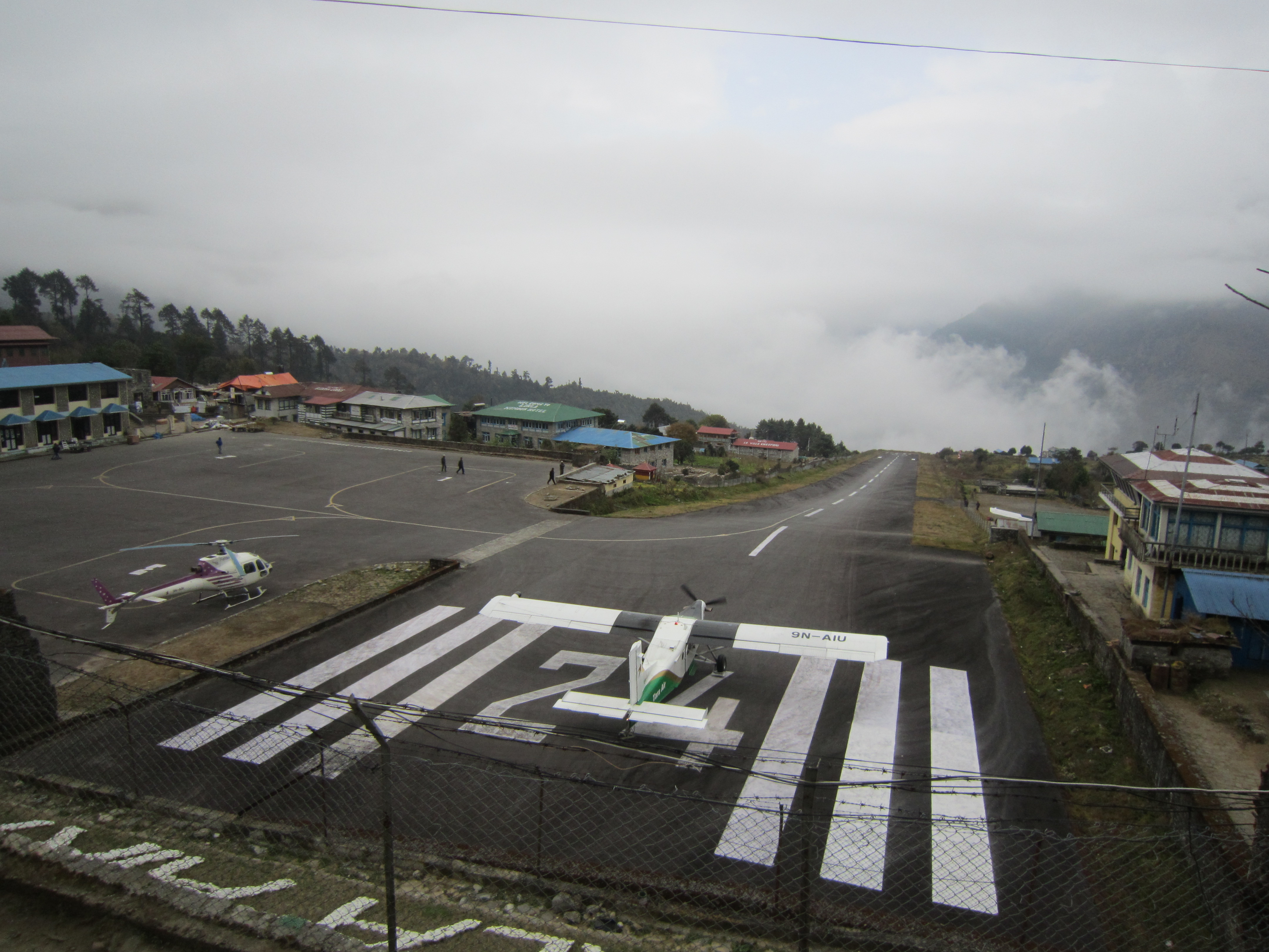 A plane taking off from Lukla airport in less than ideal weather conditions